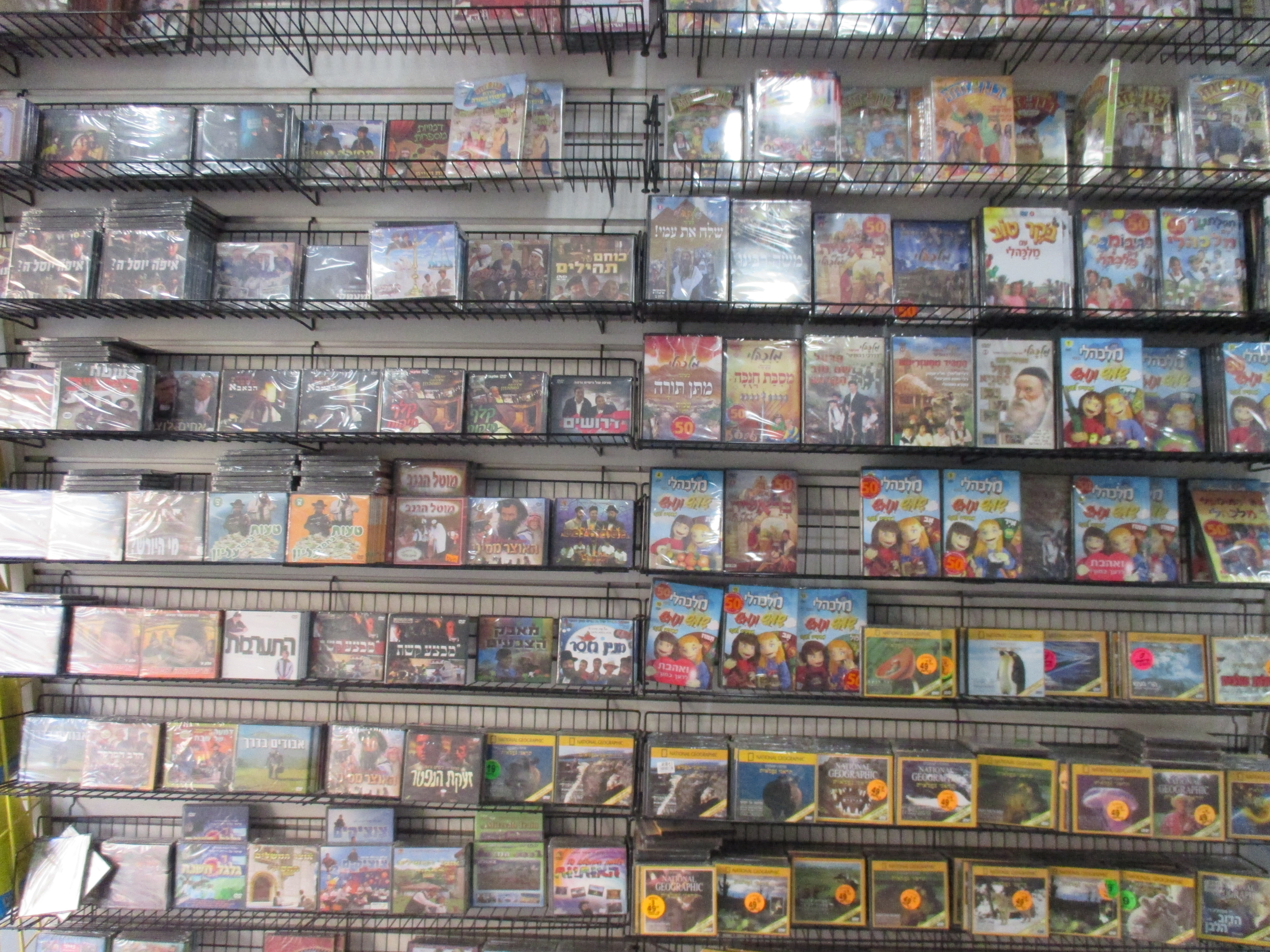 Jerusalem, Malkei Israel St 5, Galpaz Music.